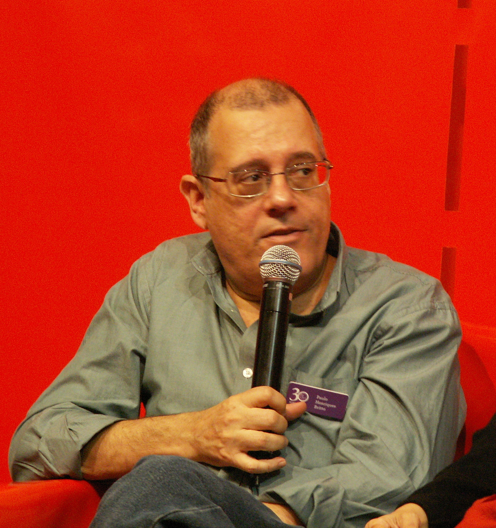 At the Göteborg Book Fair 2014.